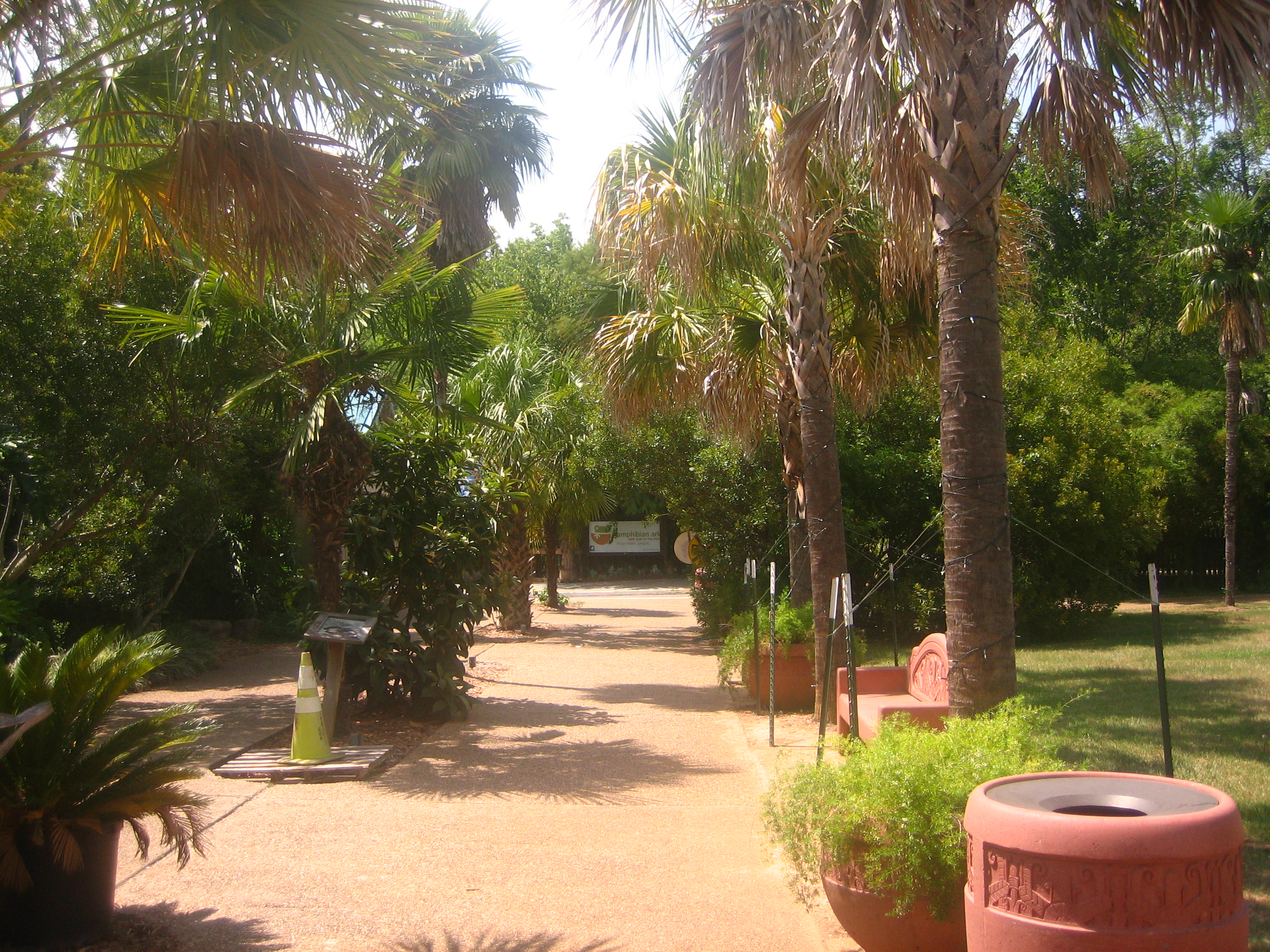 Alexandria, Louisiana. Zoo. I took photo on Aug. 1, 2008